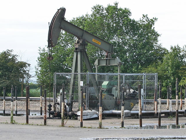 Stainton Oil Pumping Station.